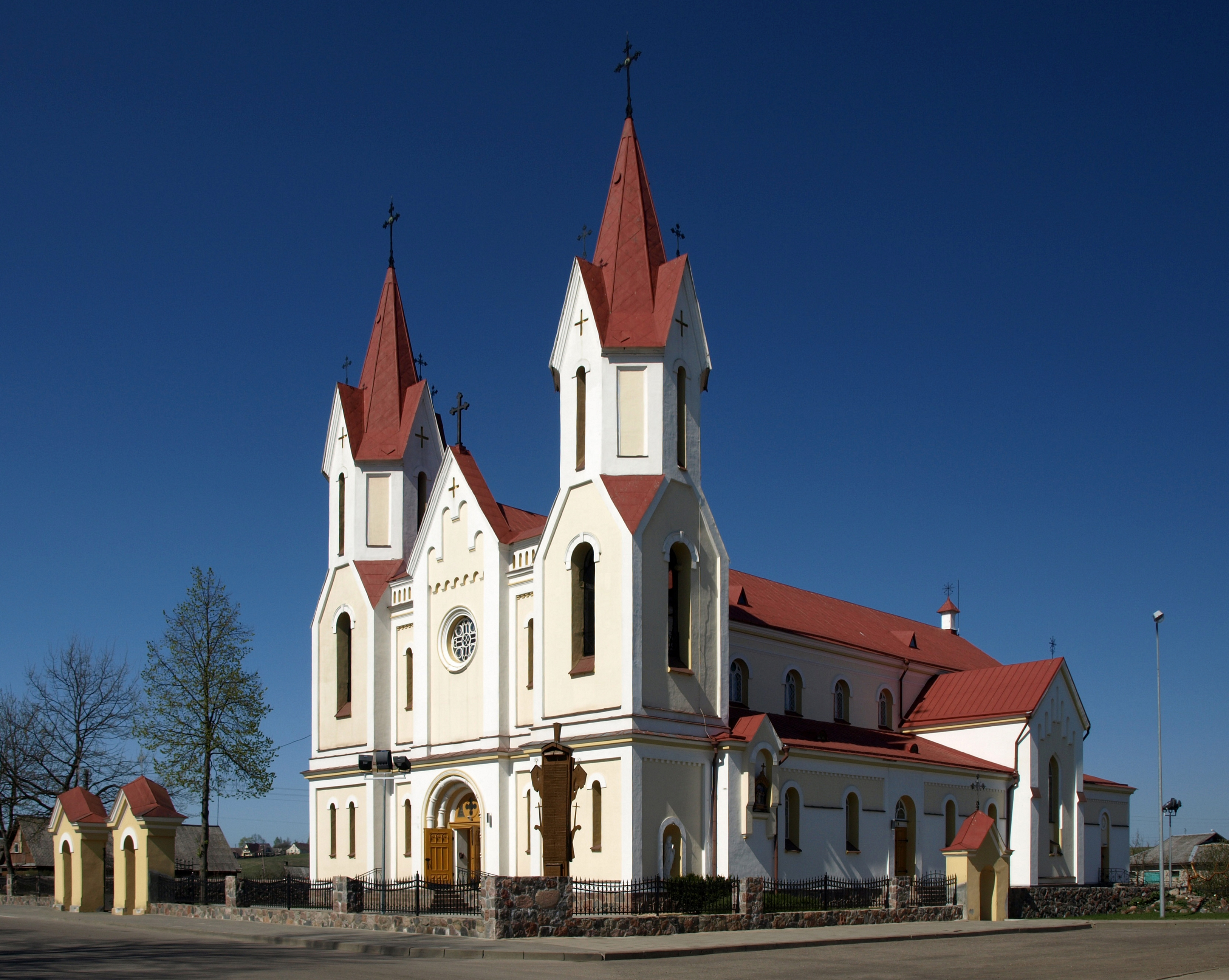 Svencionys church